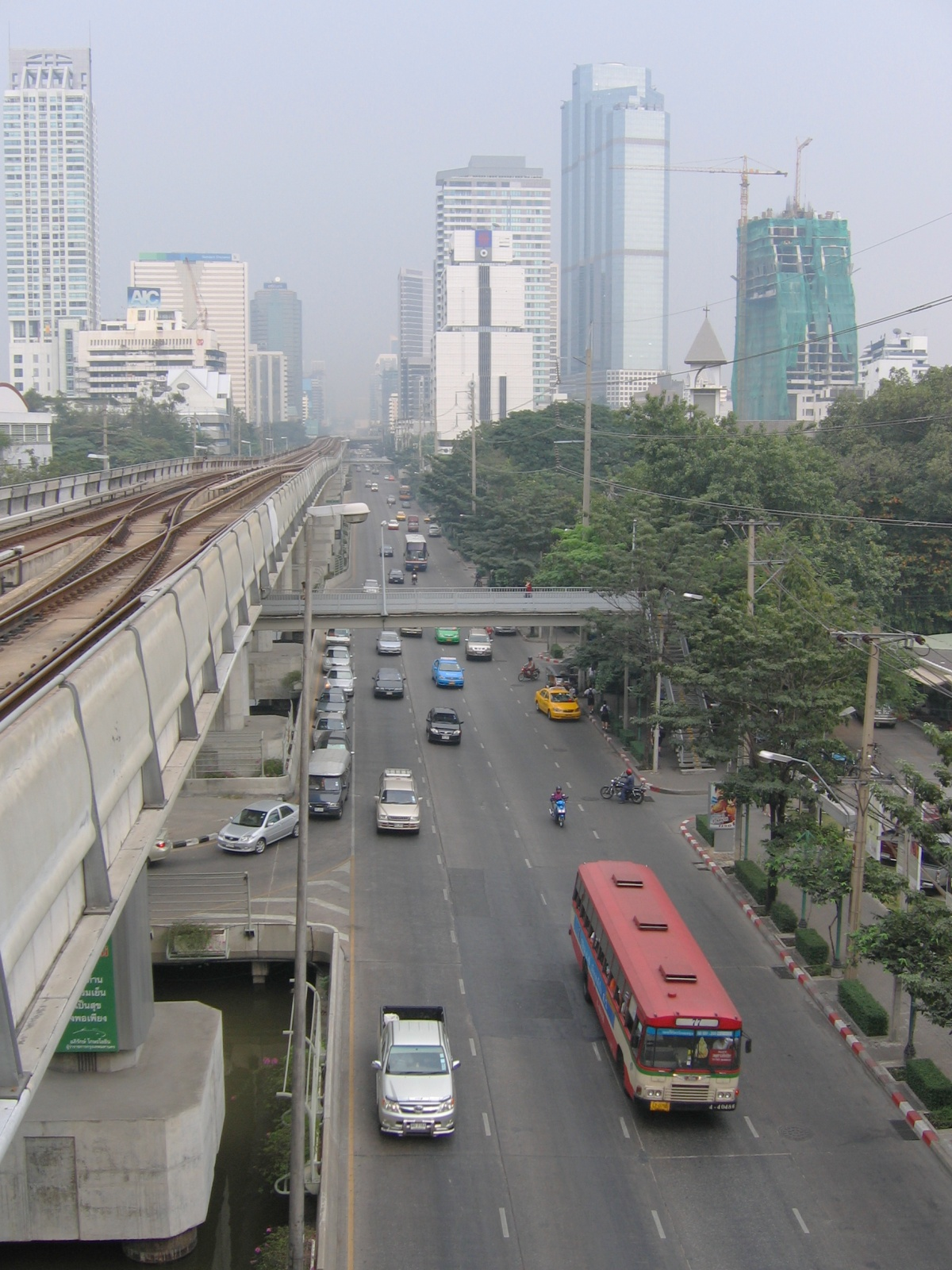 Sathon Tai Road (South Sathon Road) with Bangkok Skytrain track on the left and Khlong Sathon underneath the track. In Sathon District, Bangkok, Thailand.